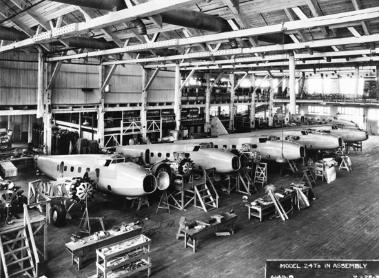 Boeing 247's are built at the Boeing factory in Washington.